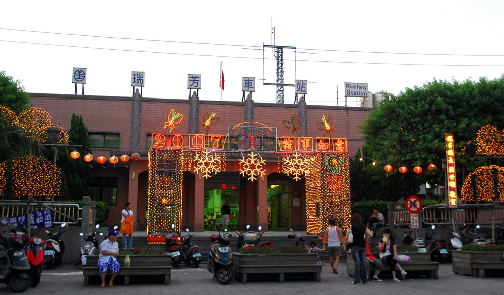 RueiFang Station is a local train station of Yilan Line, part of Taiwan's eastern rail line. It's the main station of RueiFang Town, Taipei County.